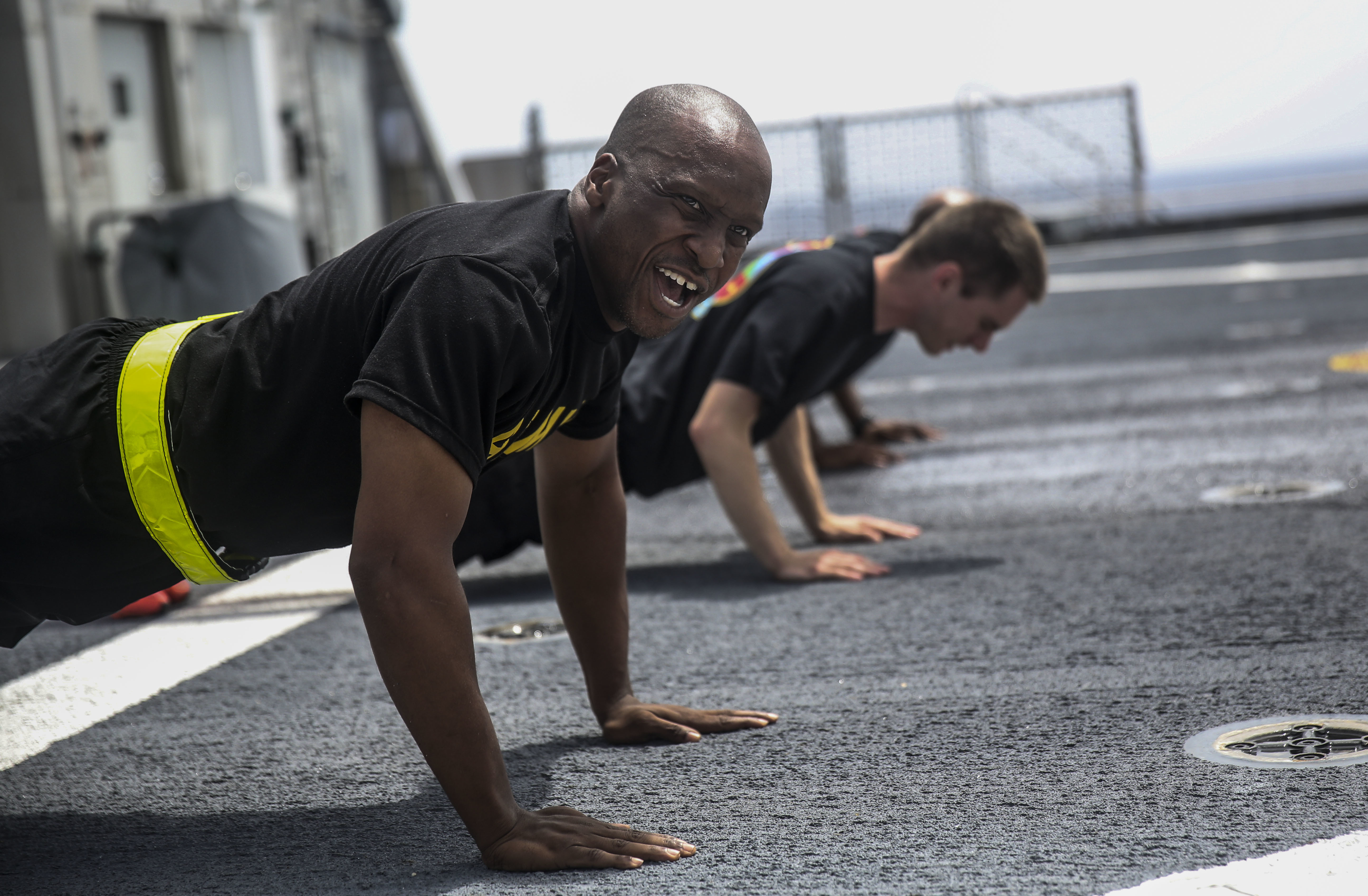 150729-M-GO800-063 PACIFIC OCEAN (July 29, 2015) – U.S. Army Sgt. Jonathon Bailey shouts instructions while performing push-ups aboard the Military Sealift Command joint high speed vessel USNS Millinocket (JHSV 3) during a physical training session designed to help with stress management July 29. Task Force Forager, embarked aboard the Millinocket is serving as the secondary platform for Pacific Partnership, led by an expeditionary command element from the Navy’s 30th Naval Construction Regiment (30 NCR) from Port Hueneme, Calif. Now in its 10th iteration, Pacific Partnership is the largest annual multilateral humanitarian assistance and disaster relief preparedness mission conducted in the Indo-Asia Pacific region. While training for crisis conditions, Pacific Partnership, missions have provided medical care to approximately 270,000 patients and veterinary service to more than 38,000 animals. Additionally, Pacific Partnership has provided critical infrastructure development to host nations through the completion of more than 180 engineering products. (U.S. Marine Corps photo by combat correspondent Sgt. James Gulliver/Released) Unit: Navy Public Affairs Support Element West DVIDS Tags: Pacific Partnership; physical training; PT; Millinocket; #PP15